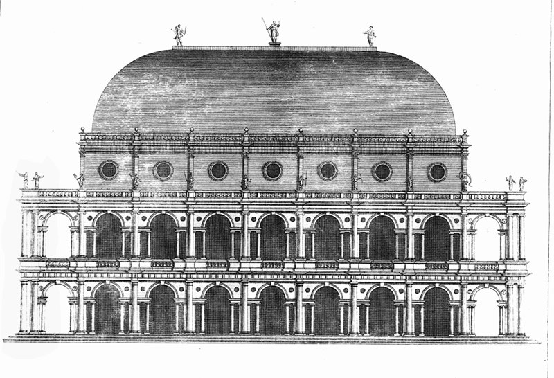 Palladio: Basilica in Venice, in Giacomo Leoni, The Architecture of Palladio in Four Books (3rd. ed. vol. 1. London: 1742, Plate XX ( Library of Congress)